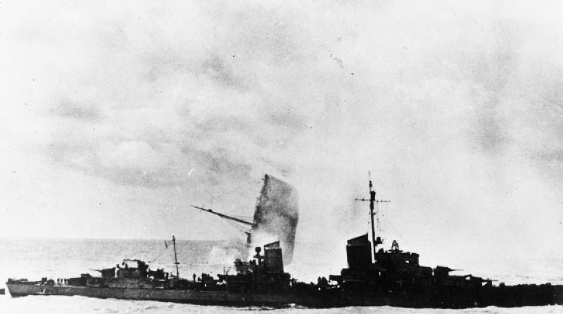 The Norwegian Campaign 1940- Naval Operations The Loss of the SS ORAMA, 8 June 1940: The German destroyer HANS LODY stops to pick up the crew of the ORAMA. The bows of the liner can be seen raised above the water behind the destroyer.